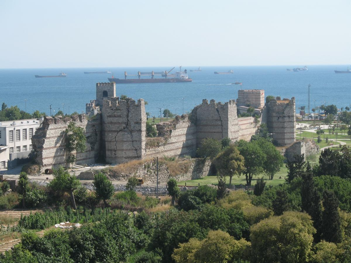 The Theodosian Walls in Constantinople. Sothern part with Marble Tower.